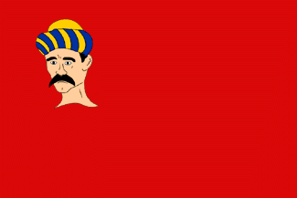 Algeria: "Barbary" ensign with the "Berber's head", however, even according to the referred source (Flags of the World) which this flag is based on, it is very doubtful that Muslims were using a flag showing an image of a human head/face